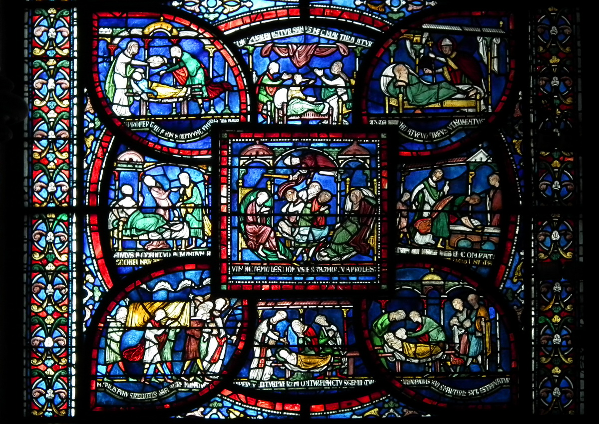 Canterbury Cathedral, Canterbury, England